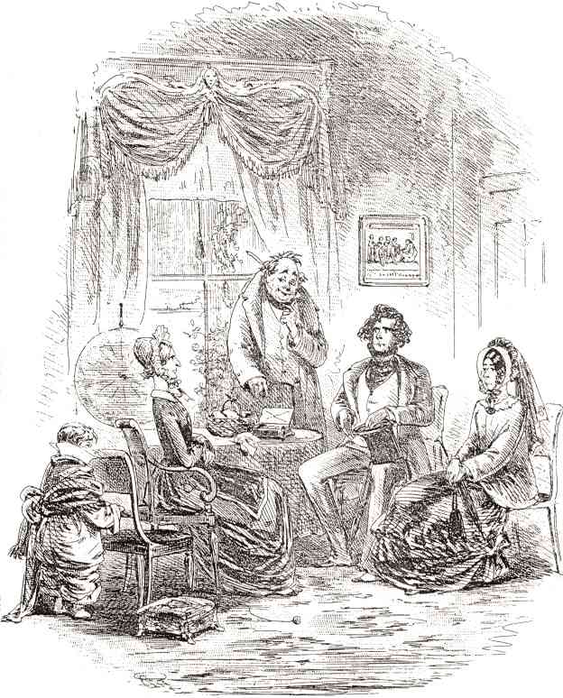 The momentous interview (1849): 10th illustration by Phiz for David Copperfield by Charles Dickens